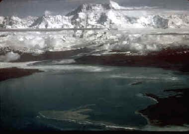 Image of Icy Bay National Park